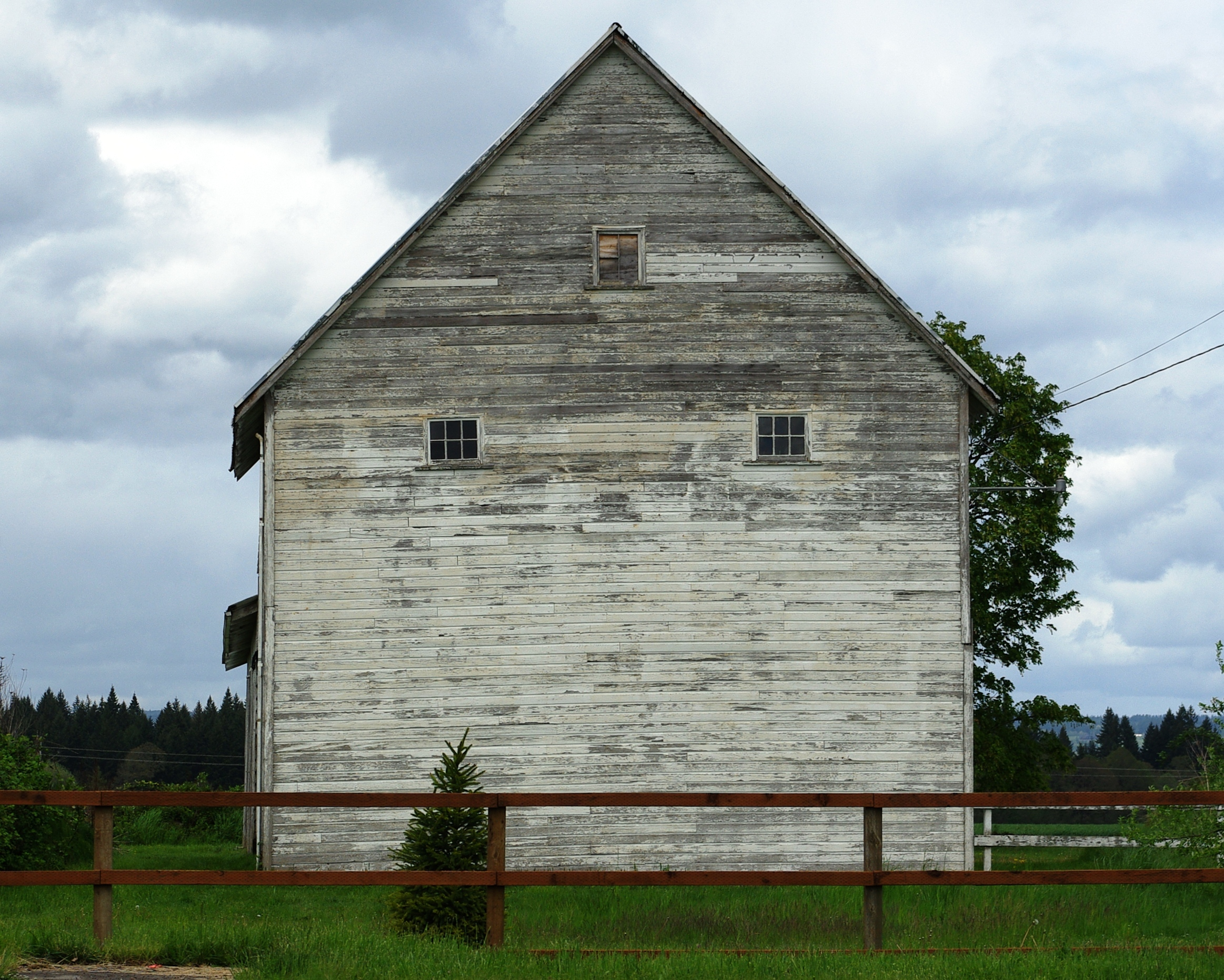 Manning-Kamna Farm barn in Hillsboro, Oregon. NRHP